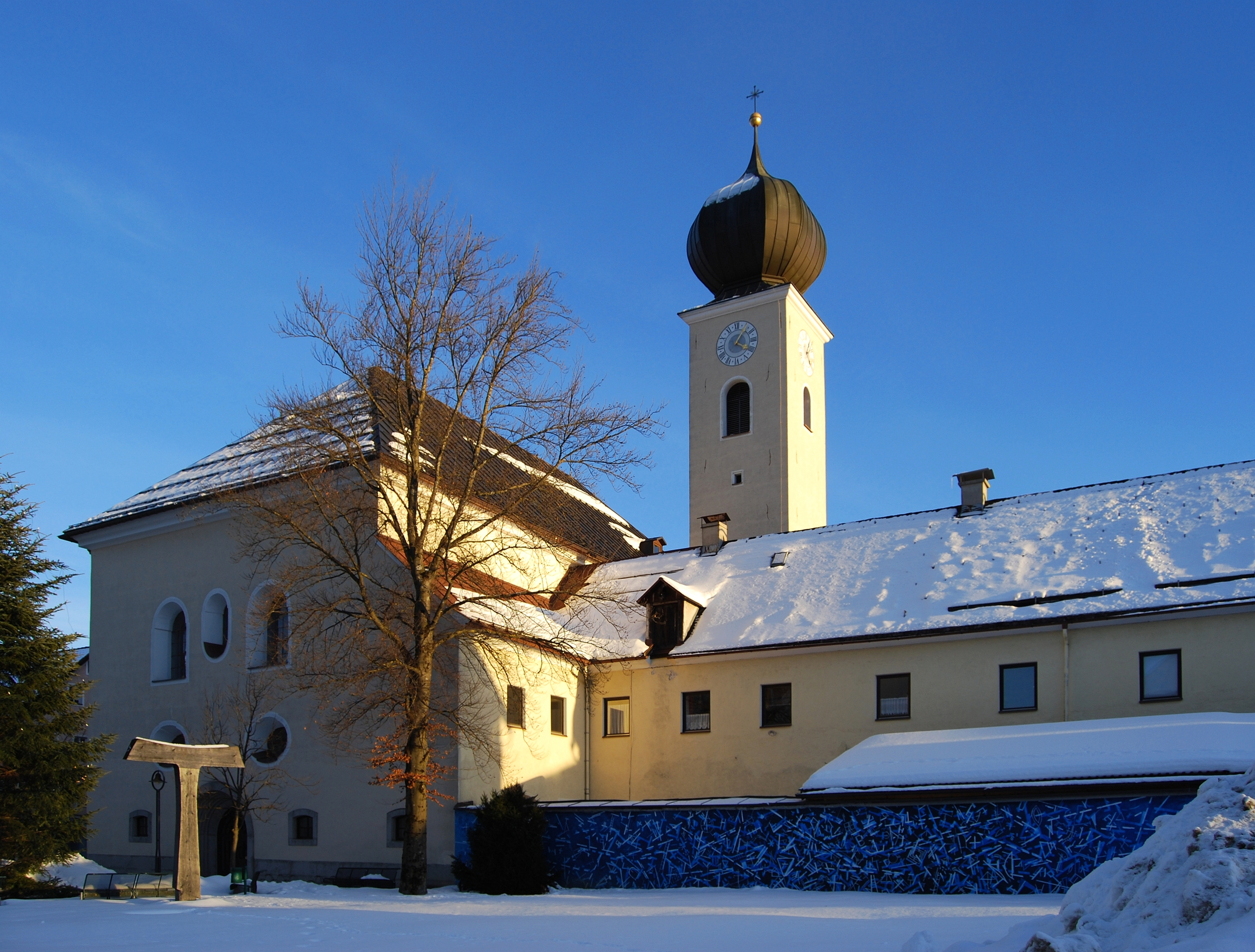 The church St. Anna of Reutte, Tyrol.